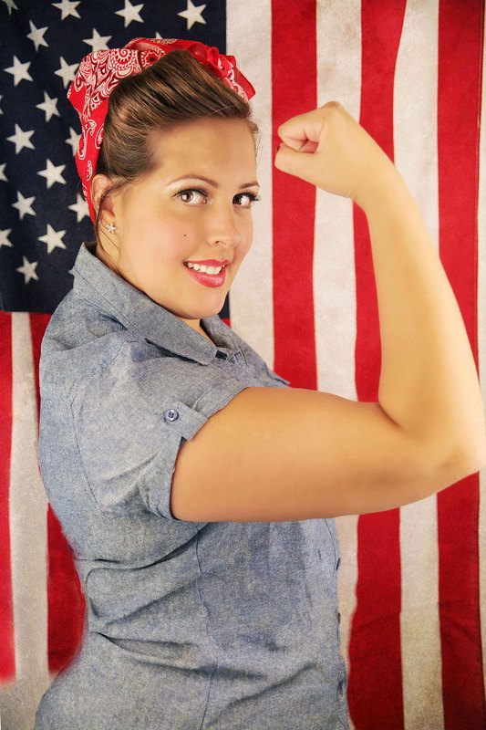 "American Woman" by MIL FM HOLLY SWEGLE, awarded 3rd Place at the 2010 Army Digital Photography Contest 110311